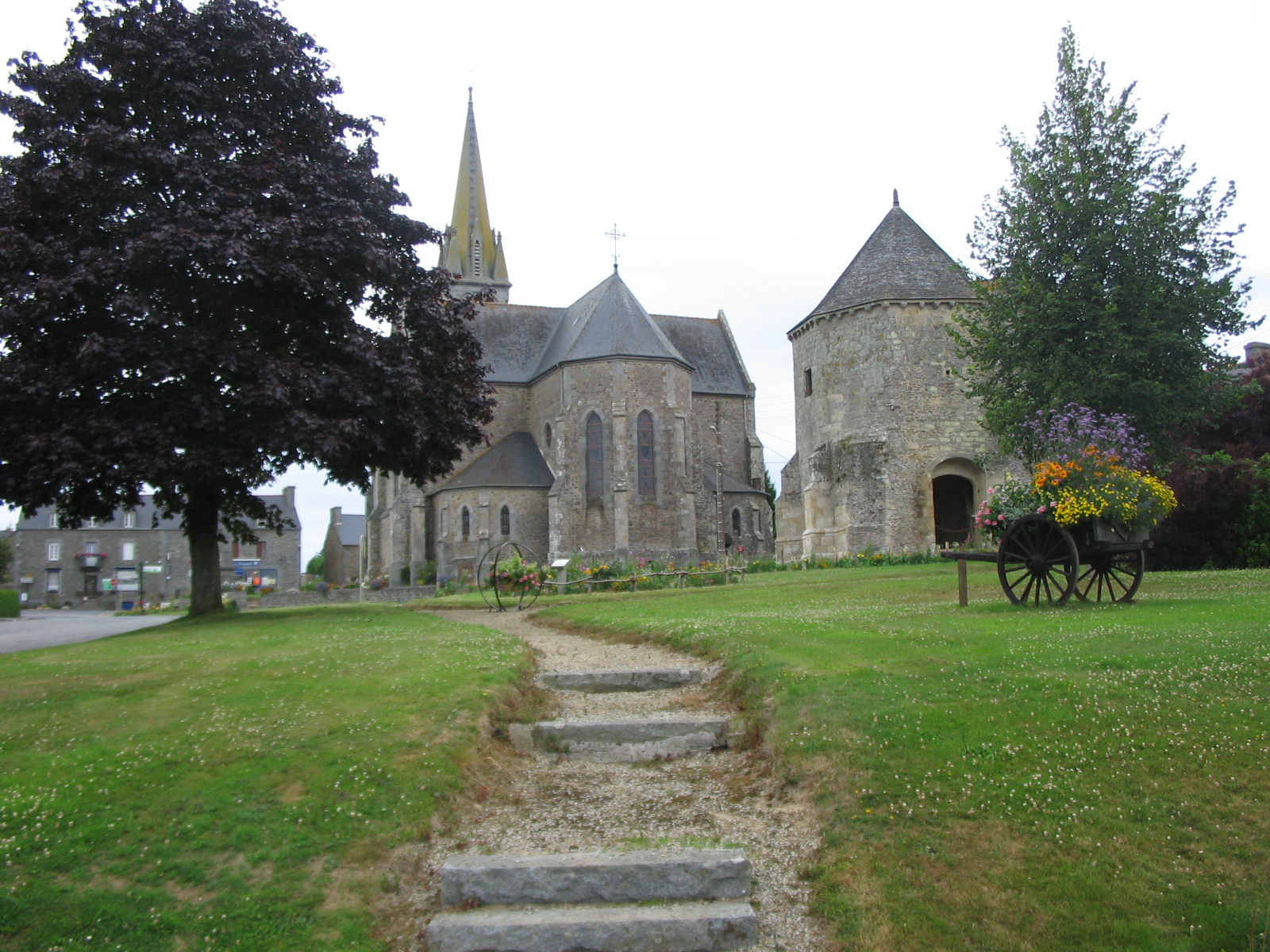 Tower St-Eutrope and church St-Pierre, Langourla, Côtes d'Armor, France.